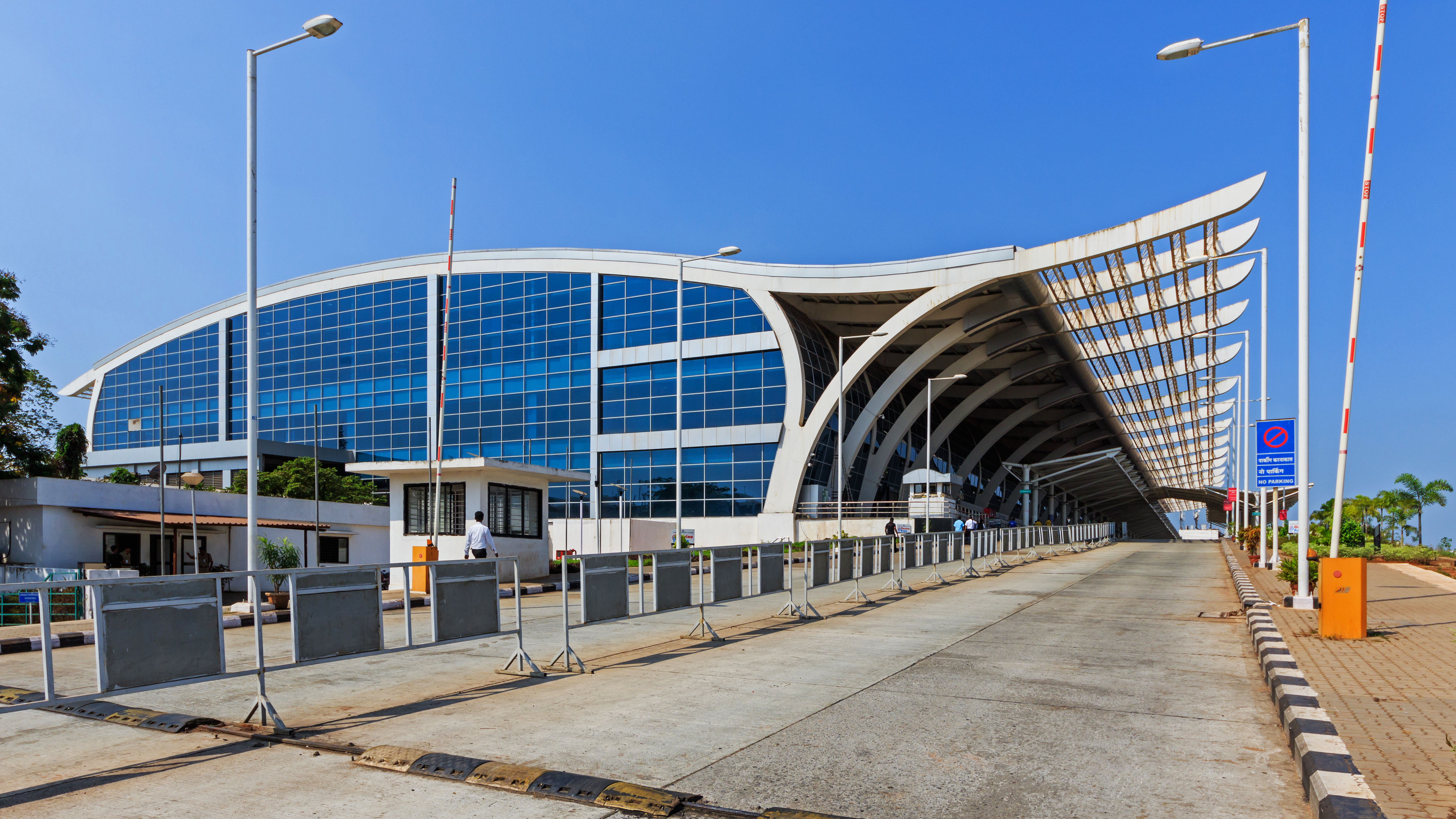 The Goa International Airport (aka Dabolim Airport) in Vasco da Gama (Goa), India